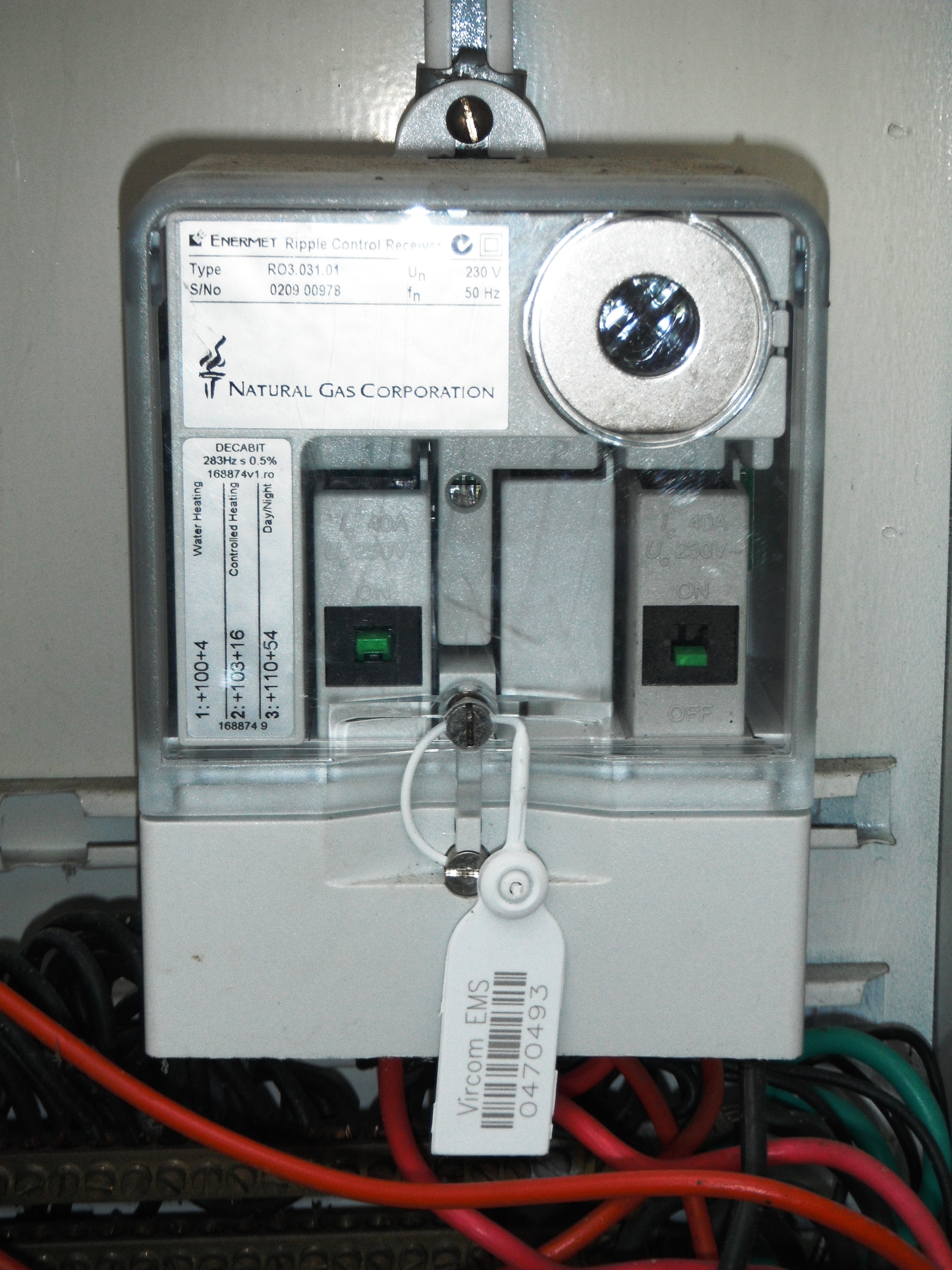 An Enermet-National Gas Corporation single-phase ripple control receiver fitted to a house in New Zealand. This particular receiver operates at 283 Hz and has two ripple-controlled circuit breakers - the left one controls the storage water heater supply (currently in the on position), and the right one controls the nightstore heater supply (currently in the off position). A tamper-evident seal is fitted to prevent tampering of the circuit breakers by the customer.